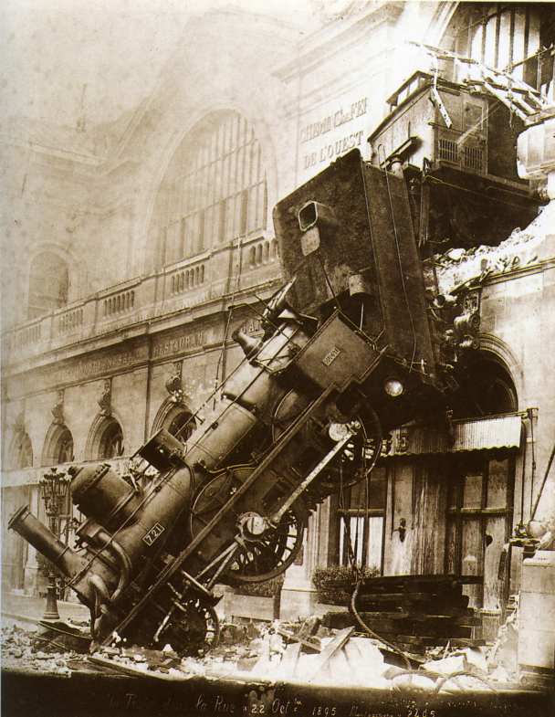 Train wreck at Montparnasse Station, Paris, France, 1895